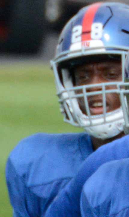 New York Giants training camp